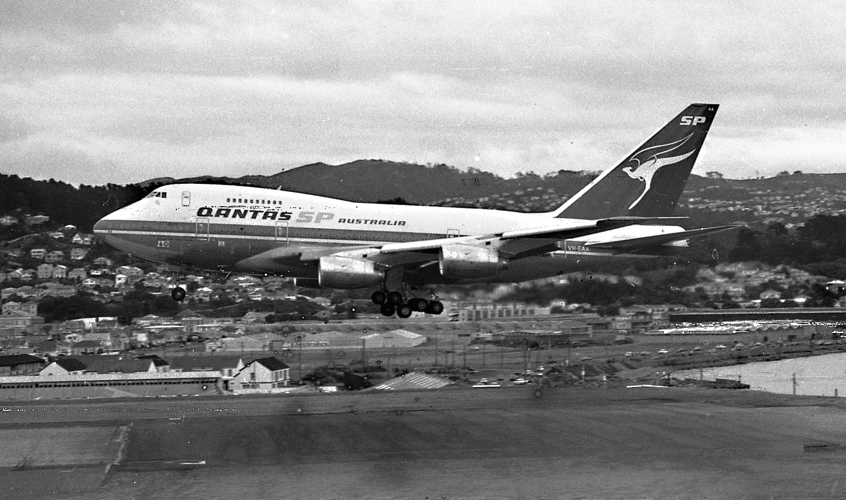 Delivered to QANTAS 1981. Used on the Wellington Trans-Tasman services until the arrival of 767s in 1984. Put up for sale in 1990 and used as back up aircraft. Remained unsold. Experienced two incidents in 2001 - one serious when in the cruise at FL44 it yawed abruptly and then went into a 20 degree bank while on autopilot. At this point it was withdrawn from use. Ferried to Marana, Arizona 2002 Broken up 2004